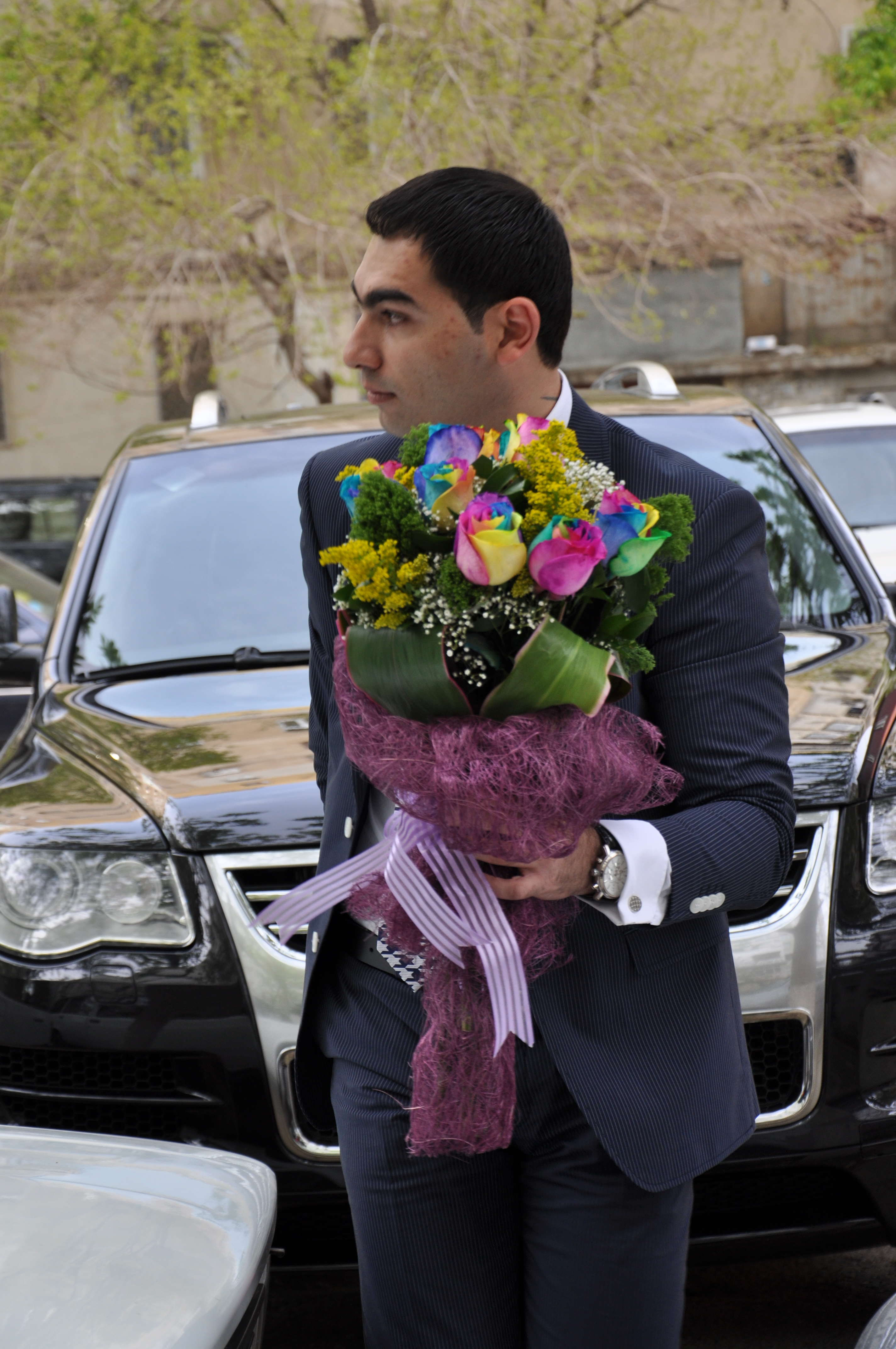 Azerbaijani groom, Engagement process